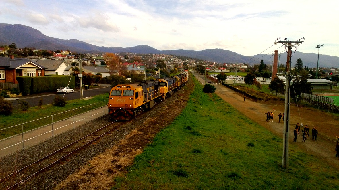 A train heading south on the South Line, near Cornelian Bay.